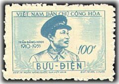 This images a 1956 postage stamp of the Democratic Republic of Vietnam, honoring Trần Đăng Ninh It was issued as the top value of a four value set. It was printed in sheets of 19 stamps by the Việt Bắc National Bank printing house.